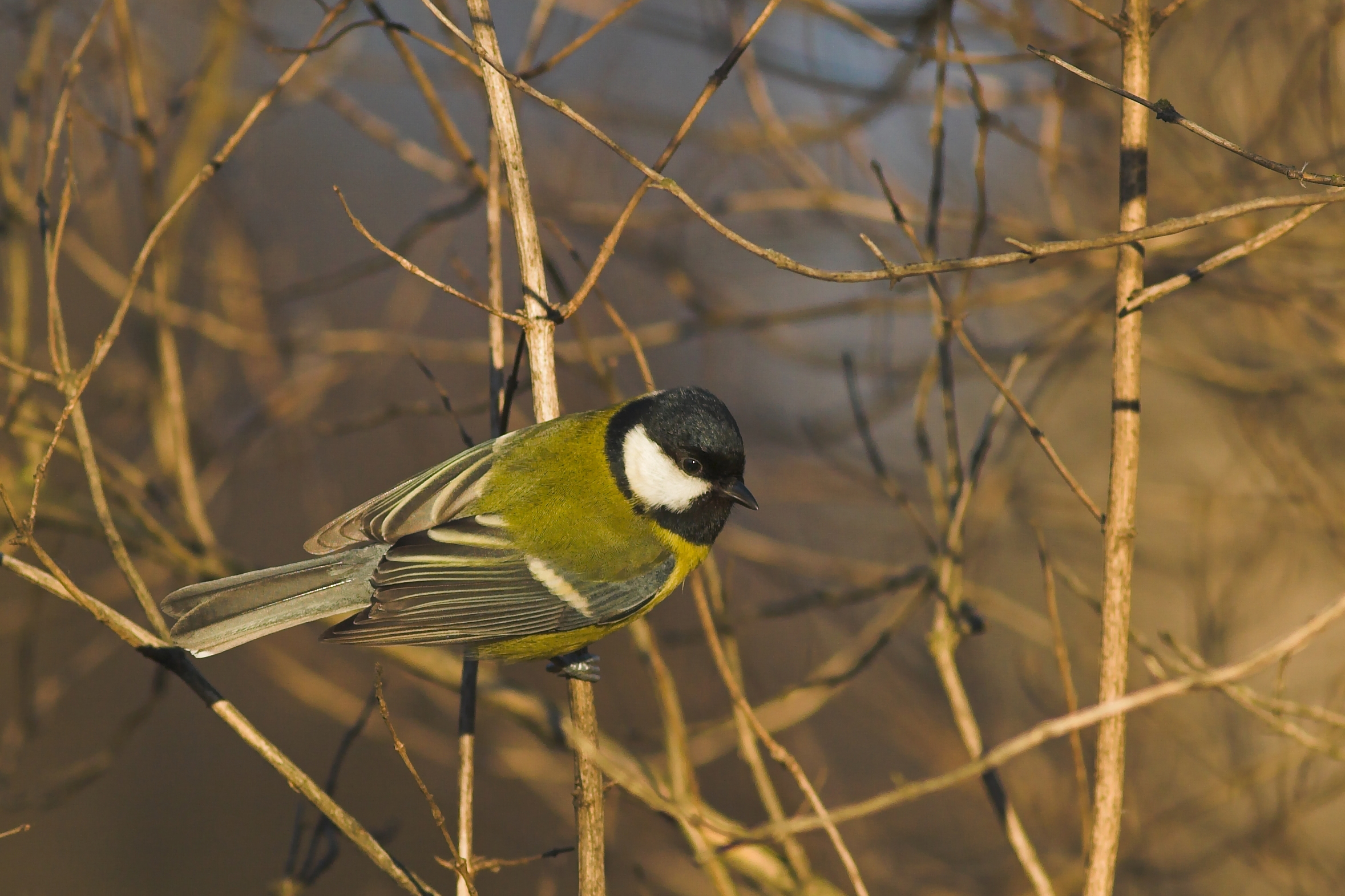 Parus Major (Great tit) in natural surroundings. Photo by Thermos.